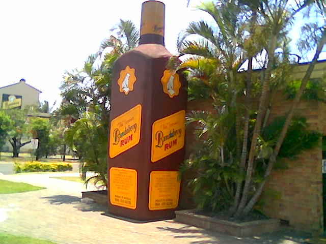 Photo taken by me, all rights to wikipedia.